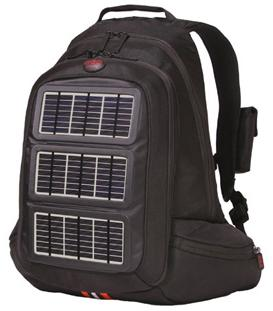 Voltaic Systems Backpack